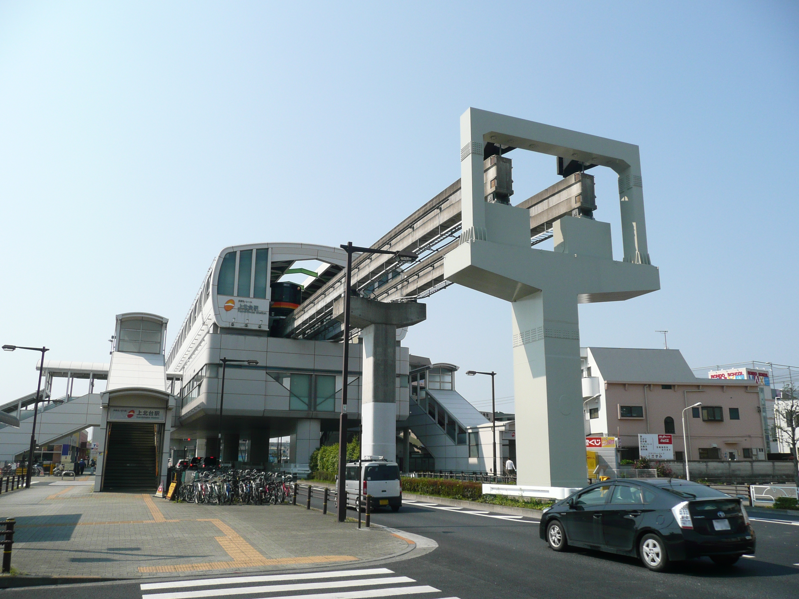 Kamikitadai Station